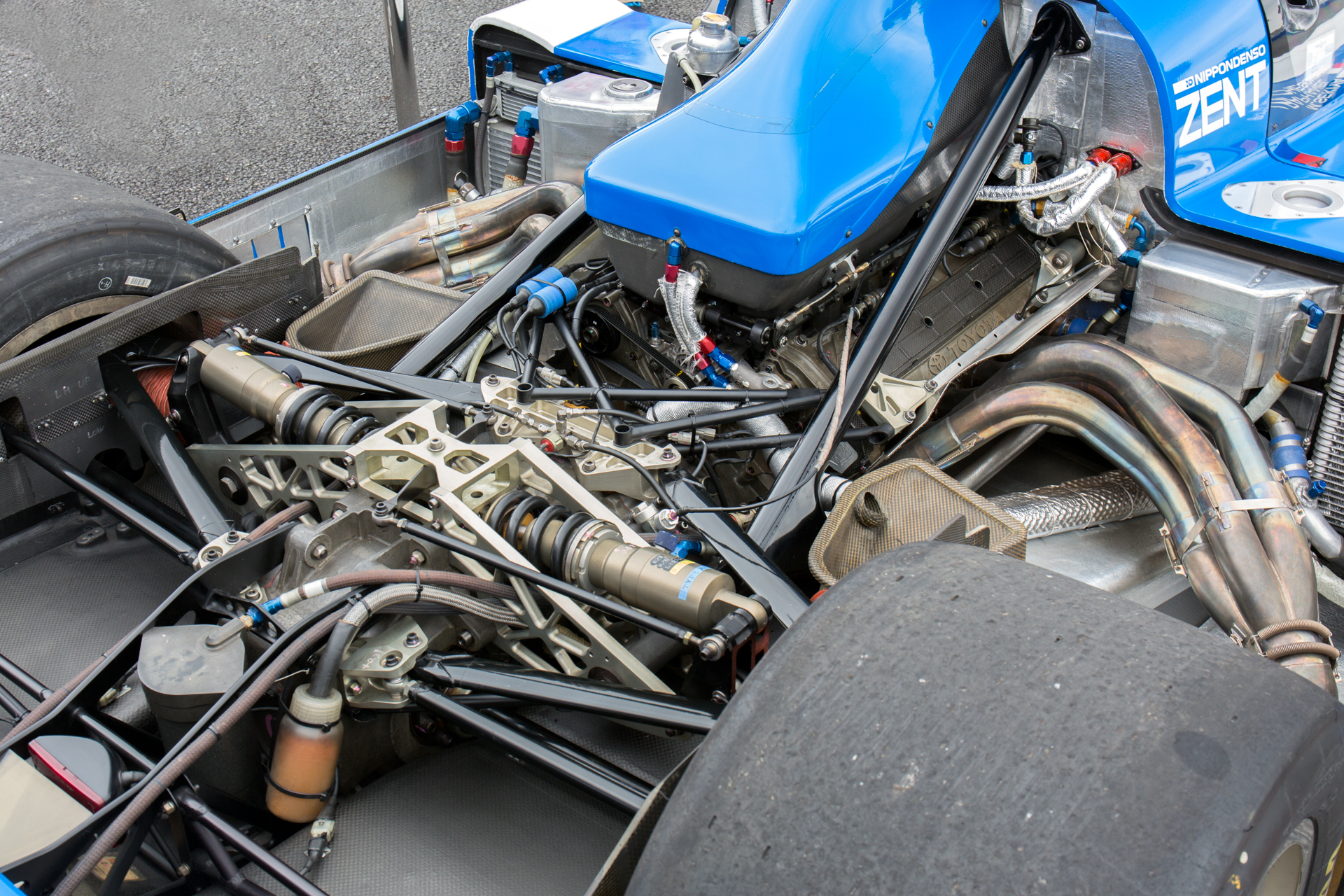 FIA World Endurance Championship 2014 Rd.5 6 Hours of Fuji: Toyota TS010's Toyota RV10 engine